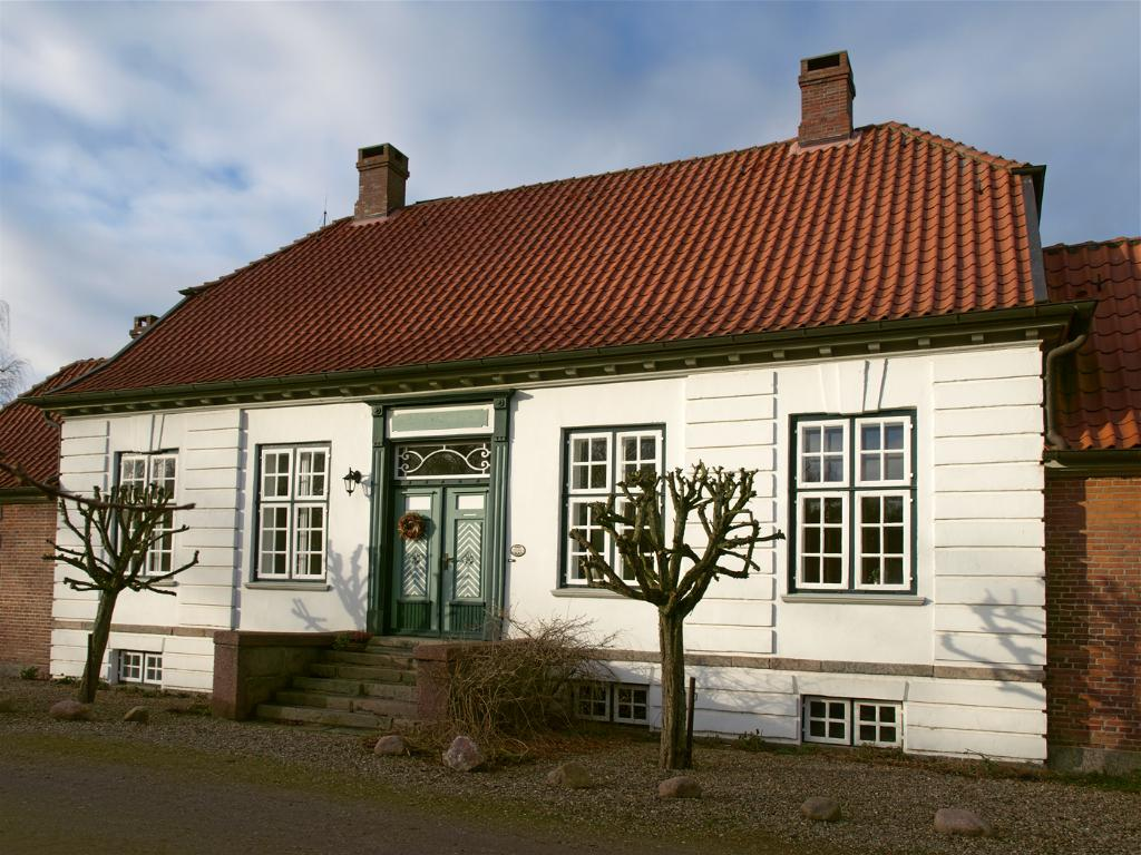 Manorial domain Emkendorf (Slesvic-Holstein, Germany), summer-house, photo 2008